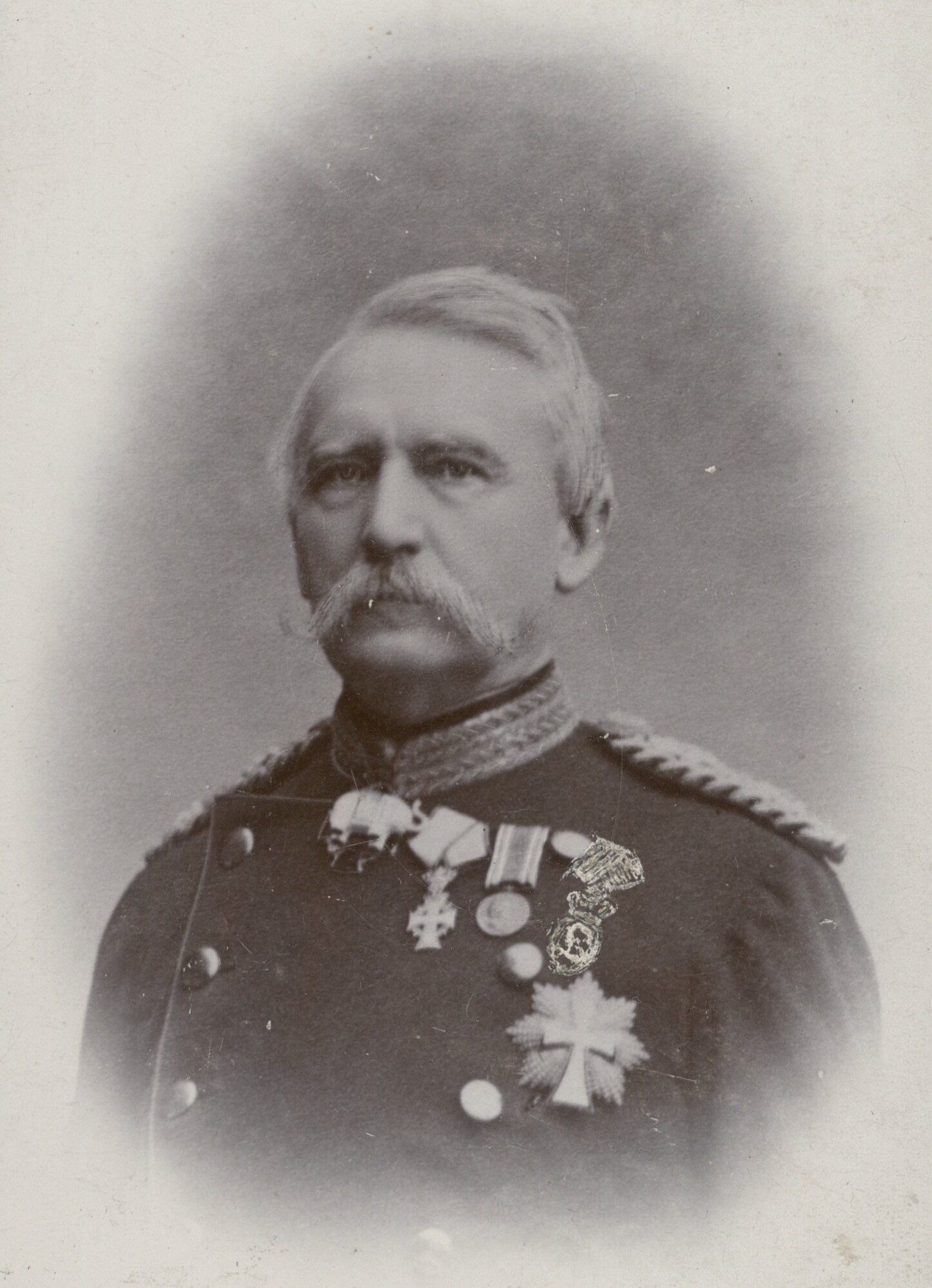 Heinrich August Theodor Kauffmann (1819-1905), Danish general